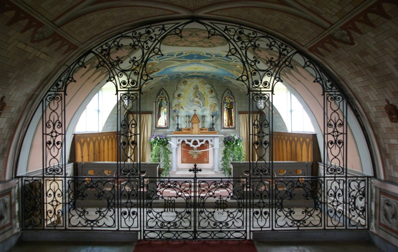 The Italian Chapel, Lamb Holm, Orkneys, Scotland. Interior.